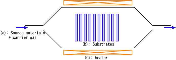 Schematic diagram of a hot-wall CVD (Chemical Vapor Deposition) system.